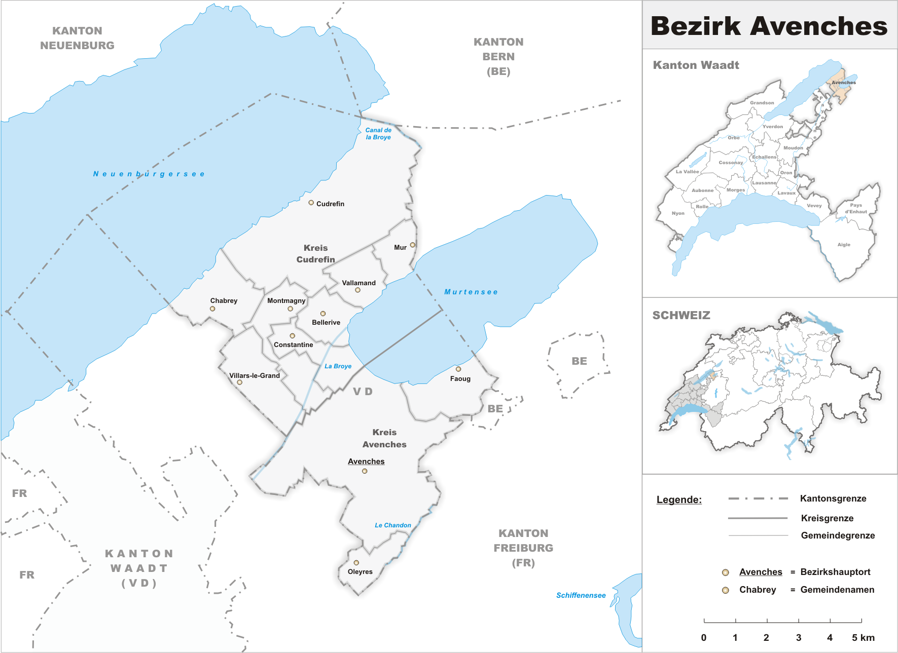 Municipalities in the district of Avenches